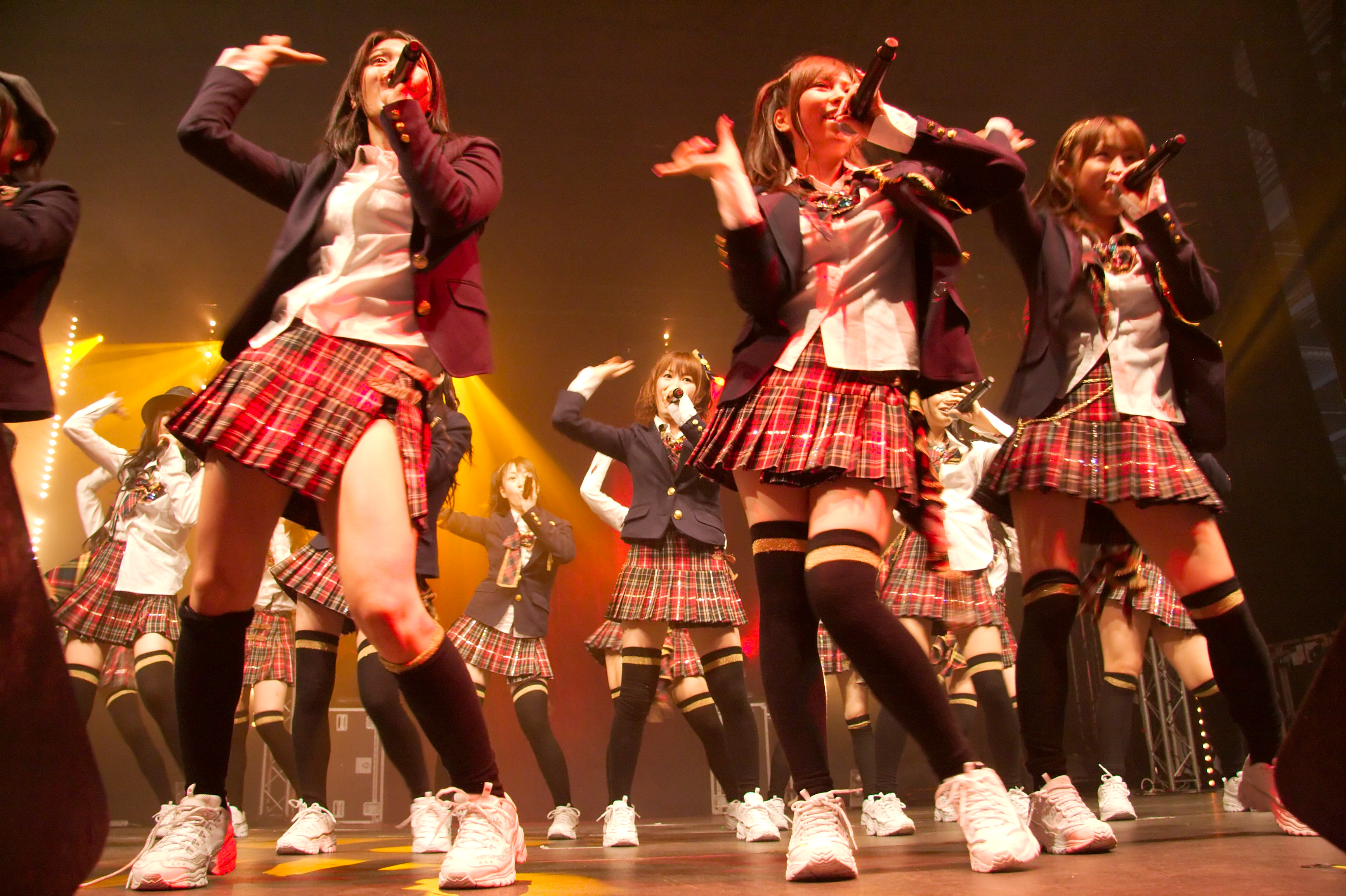 AKB48 live at Japan Expo 2009 (Paris, France).